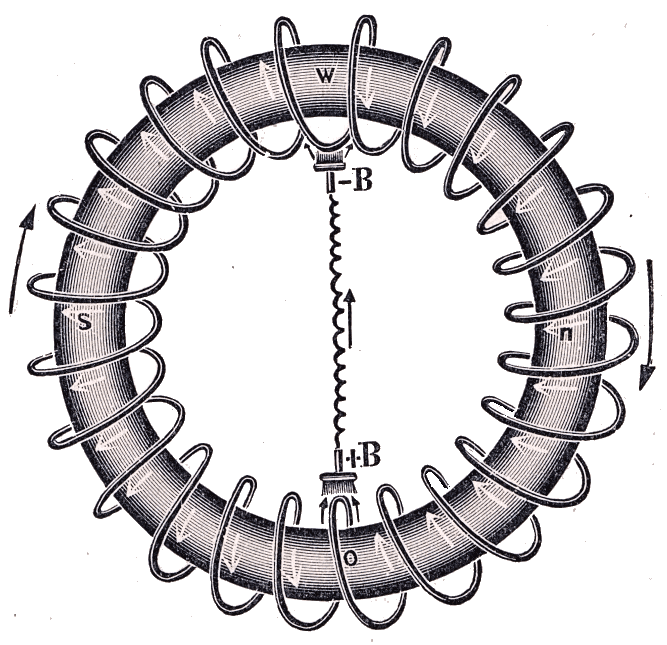 Gramme ring